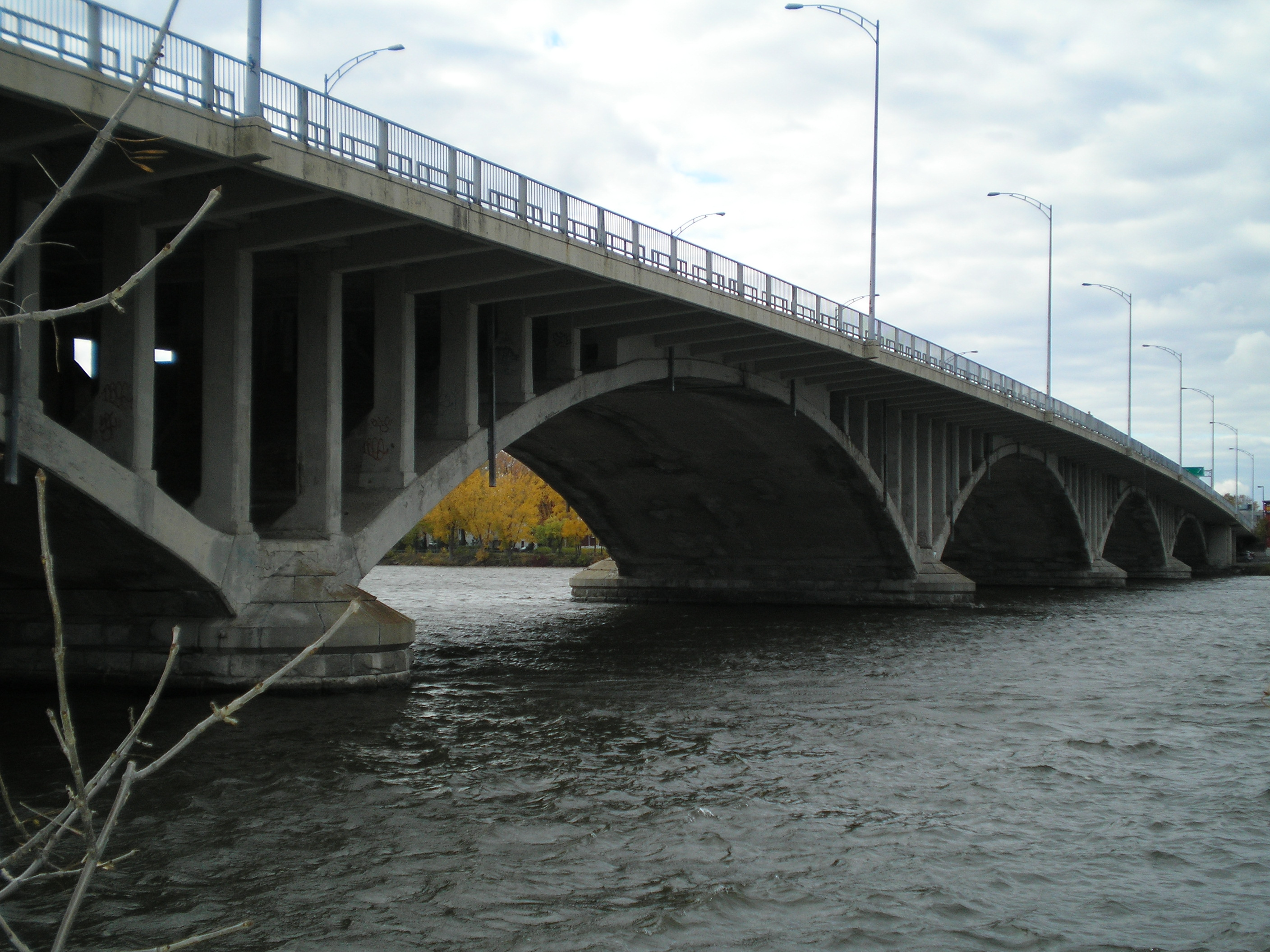 Viau Bridge, between Montreal and Laval, is an example of a concrete arch bridge.